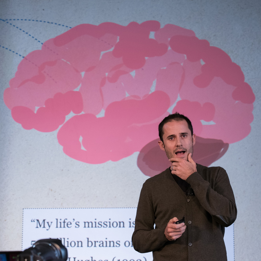 Ev Williams speaks at XOXO Festival 2013 in Portland, Oregon.